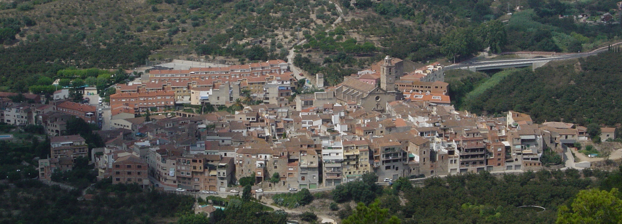 L'Aleixar